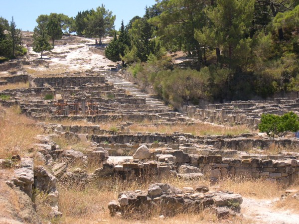 Ruins of the ancient Greek city of Kameiros, Rhodes Island, Greece